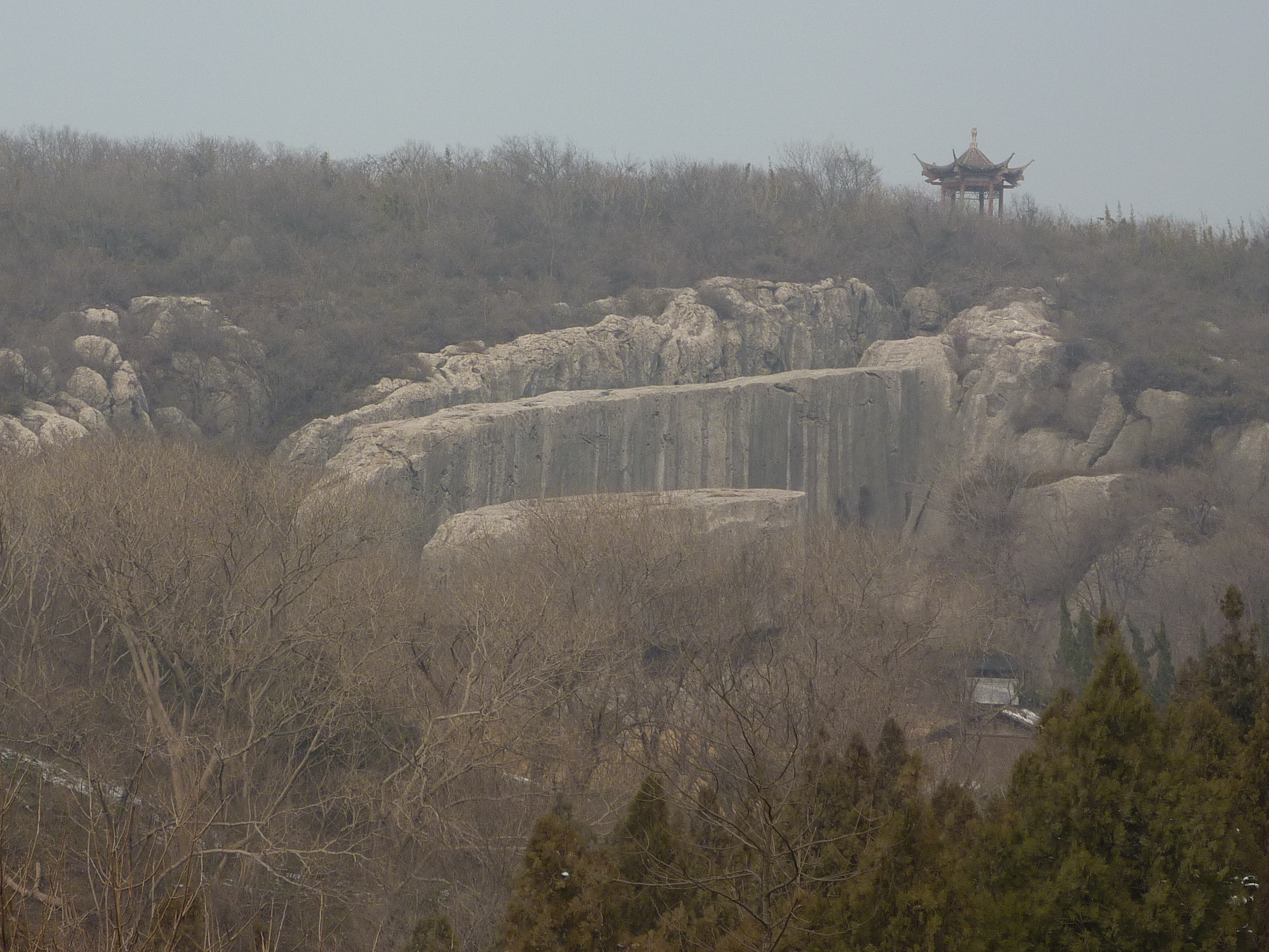 Part of the NE pit of the Yangshan Quarry, seen from the "plateau" SE of the quarry. The Monument Body is in the center, with the smaller Monument Head in front of it.